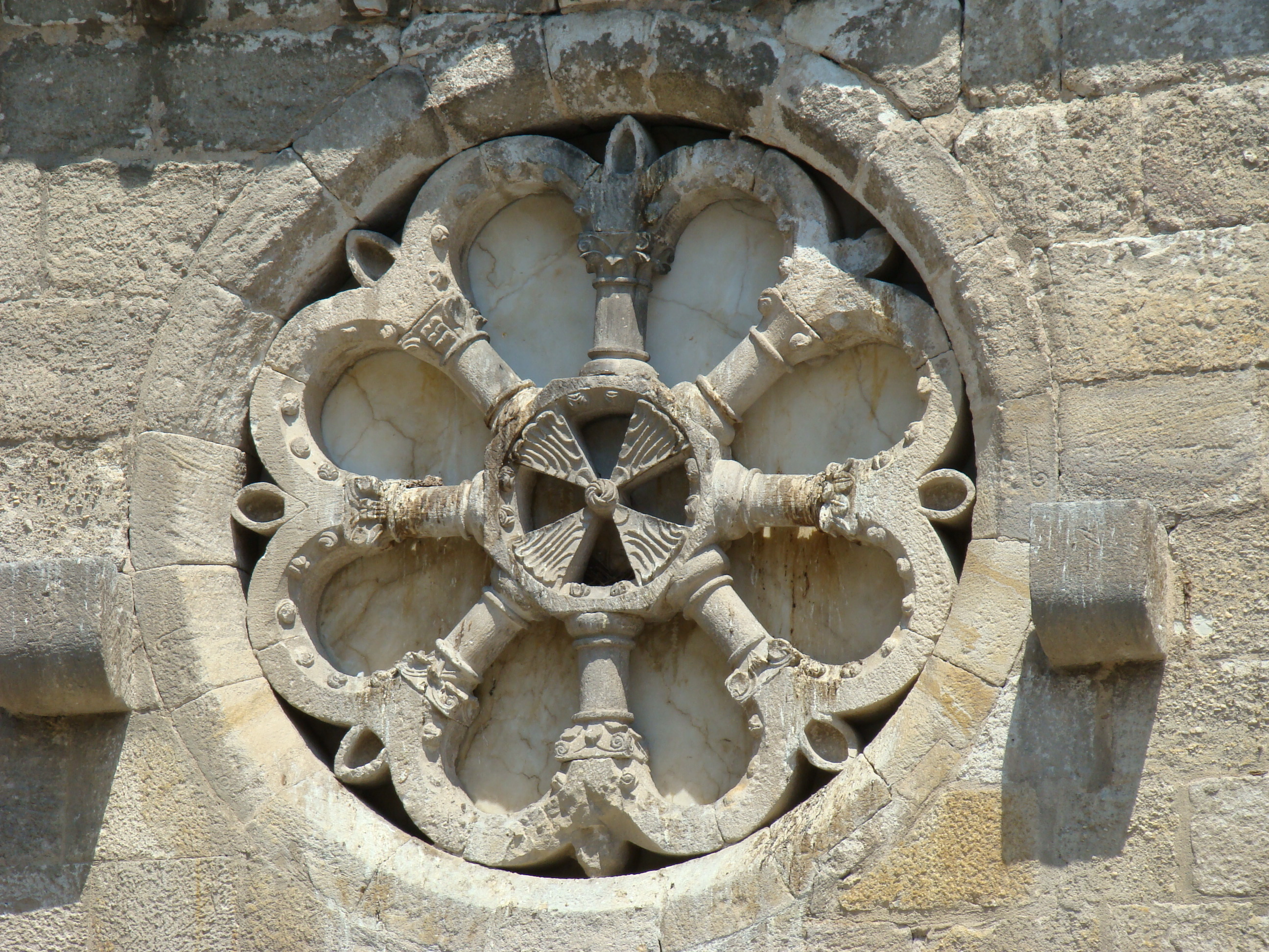 Romanic rosette on the portal of the church of San Juan de Puertanueva in Zamora (Spain).